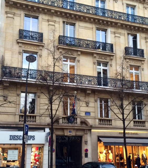 Embassy of Iceland in Paris, France